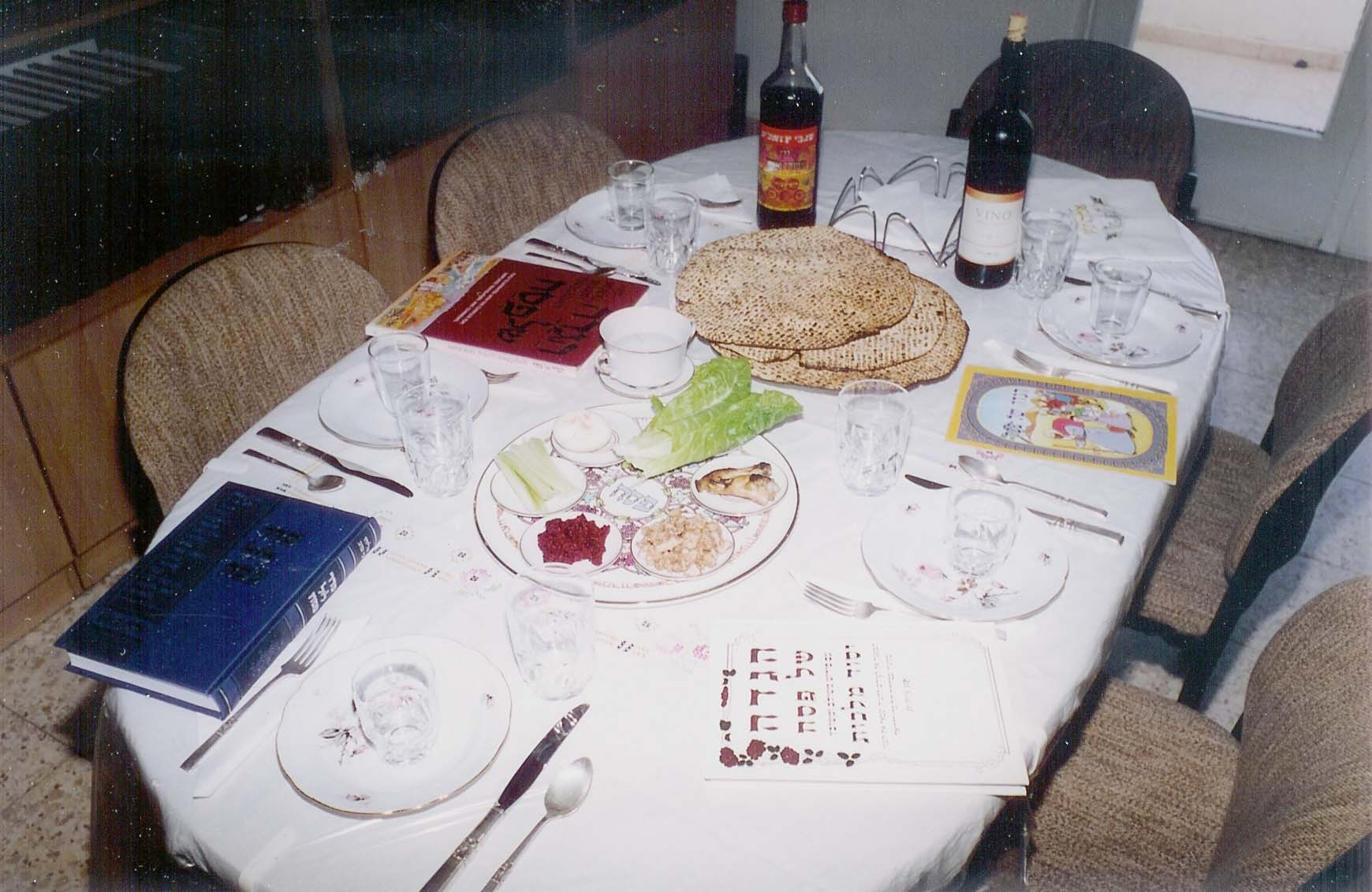 Photo of table set for Passover Seder, including Passover Seder Plate, three matzos, and salt water (center), and Haggadahs beside each place setting. Photographed on April 12 2006 by Yoninah. Yoninah 21:02, 20 May 2006 (UTC)